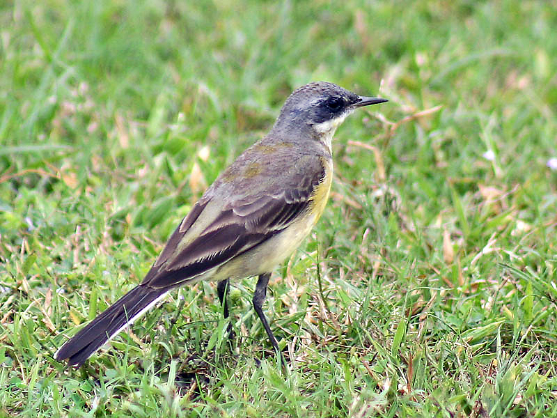 Yellow Wagtail Motacilla flava at Hodal, in Faridabad, District of Haryana, India.